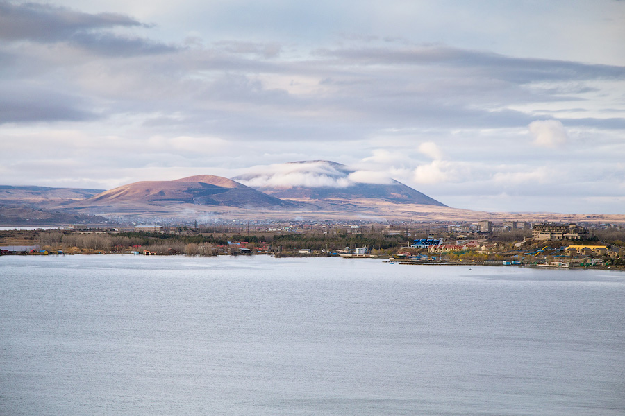 Sevan, Armenia.